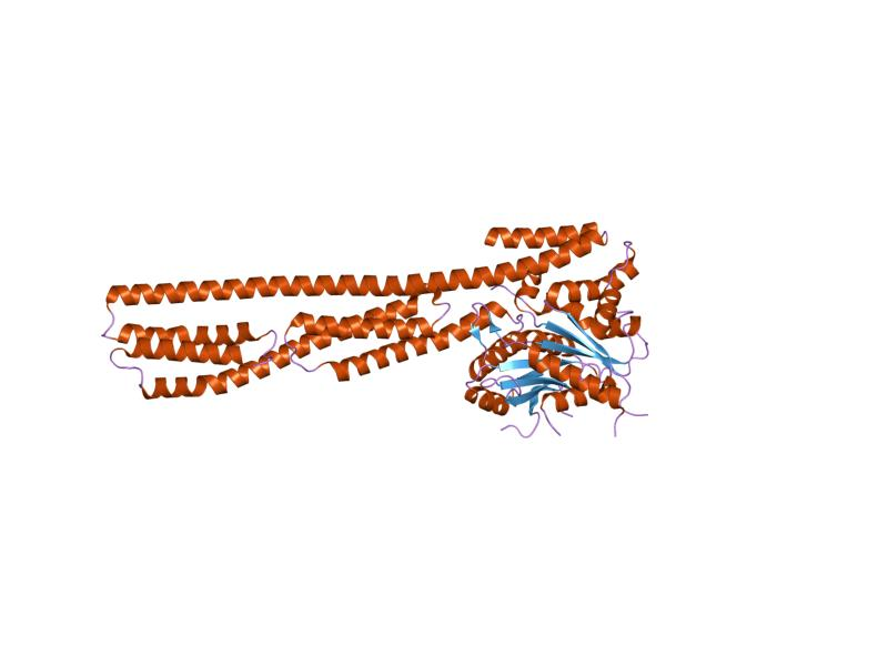 Cartoon representation of the molecular structure of protein registered with 1dg3 code.